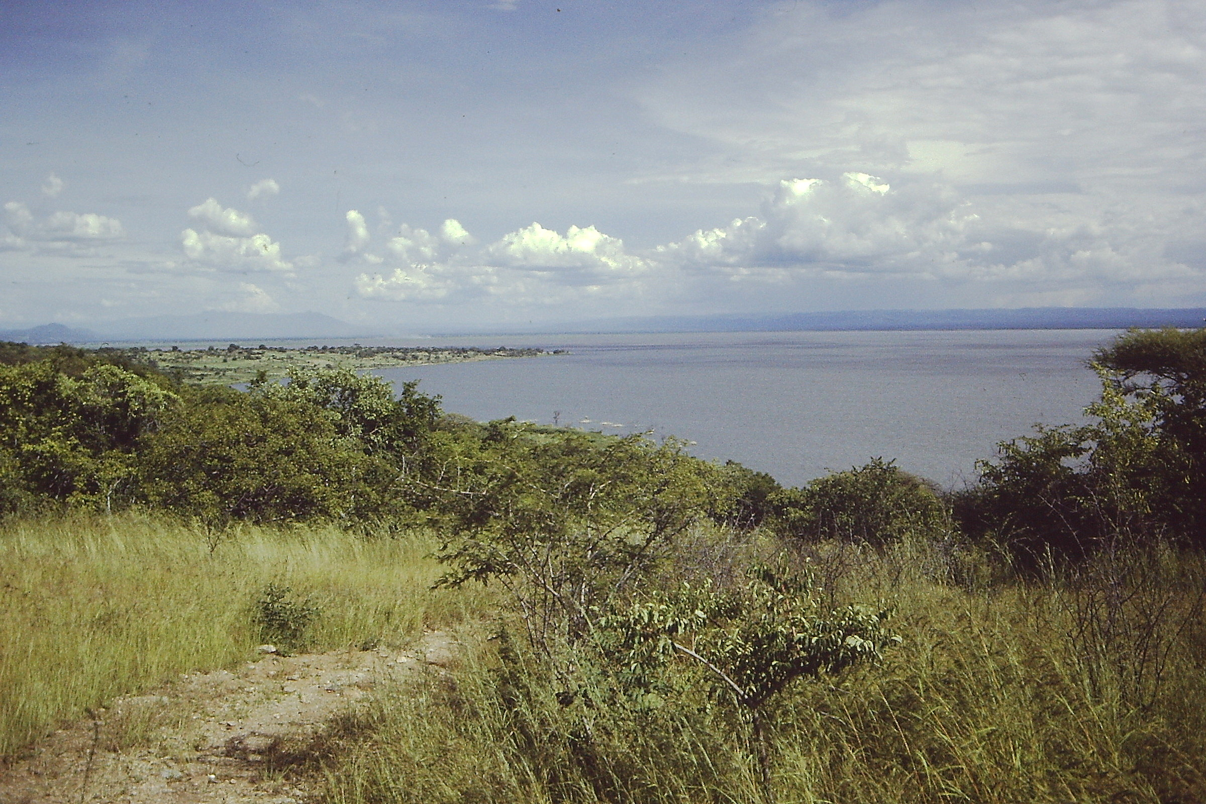 Lake Rukwa: the central area from the Northern shore